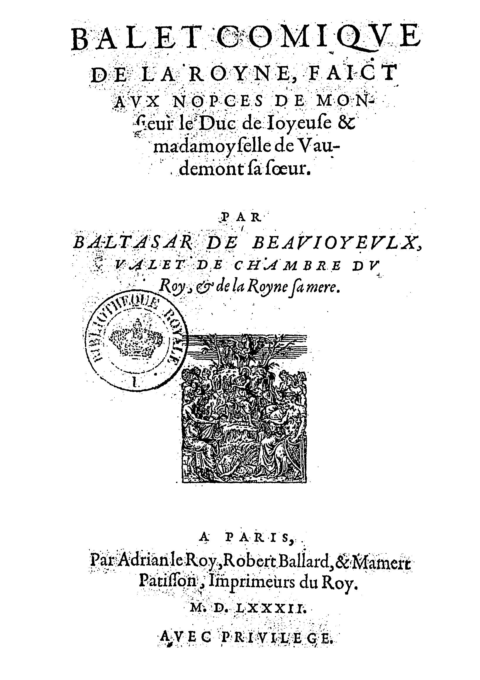 Title of the print edition of “Ballet comique de la reine”